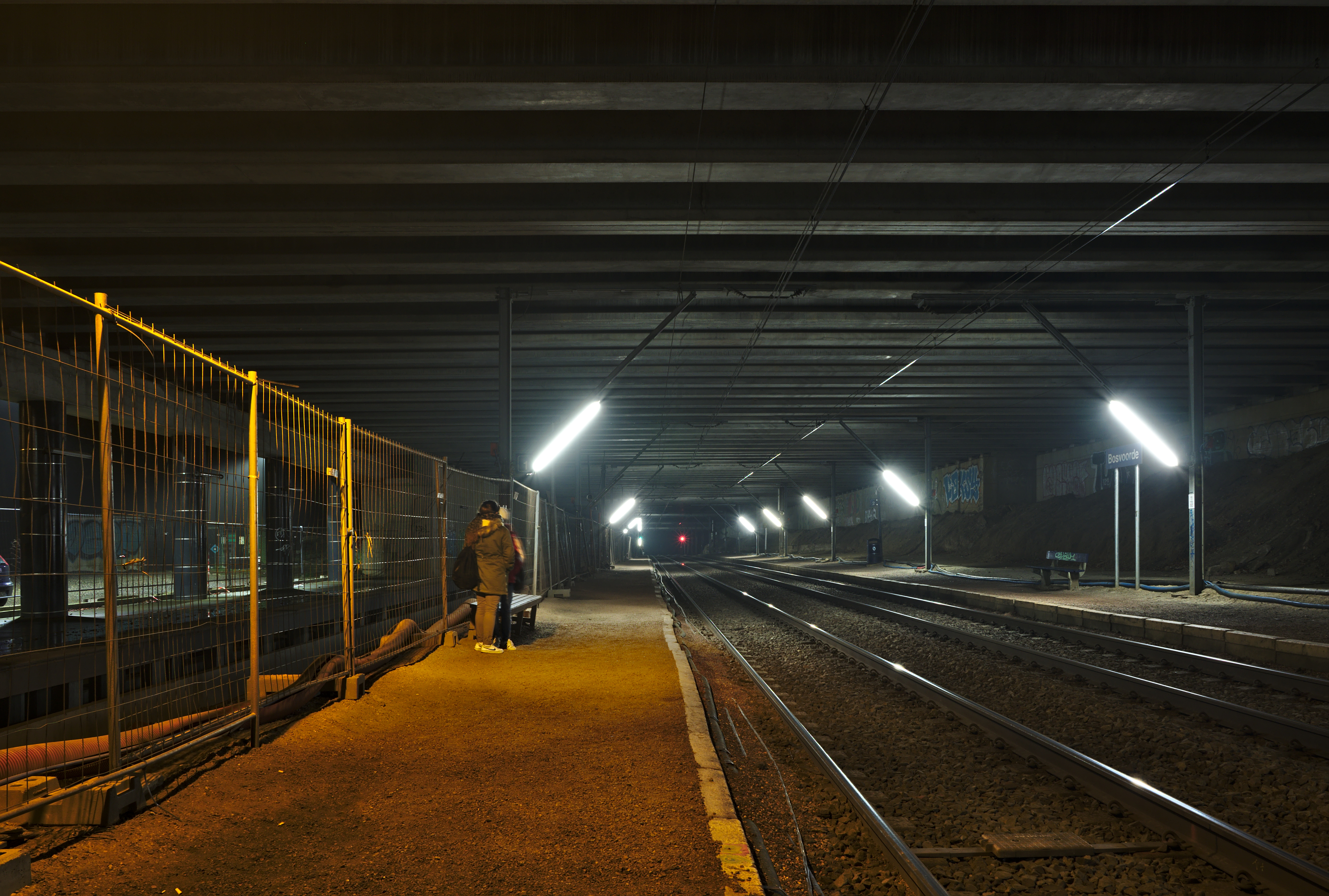 Gare de Boitsfort platforms on a foggy morning in December (Belgium)